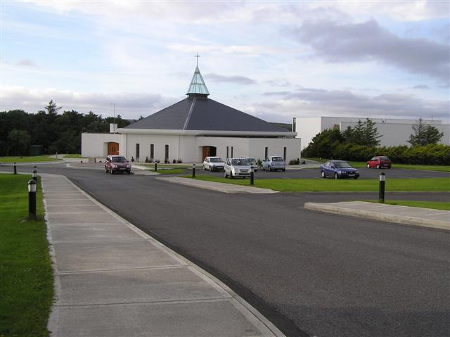 Dungloe RC Church This church replaces the old one.